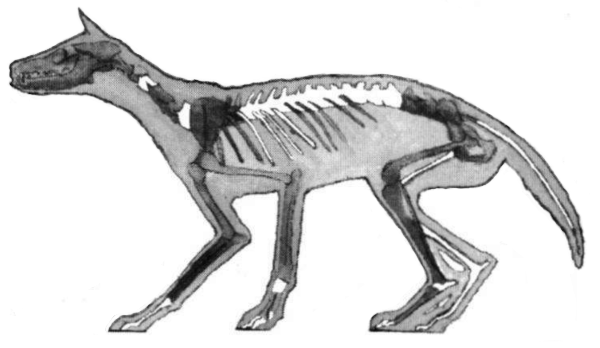 Skeleton of Cynotherium sardous